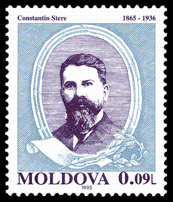 Constantin Stere (1865-1936). Politician and writer.